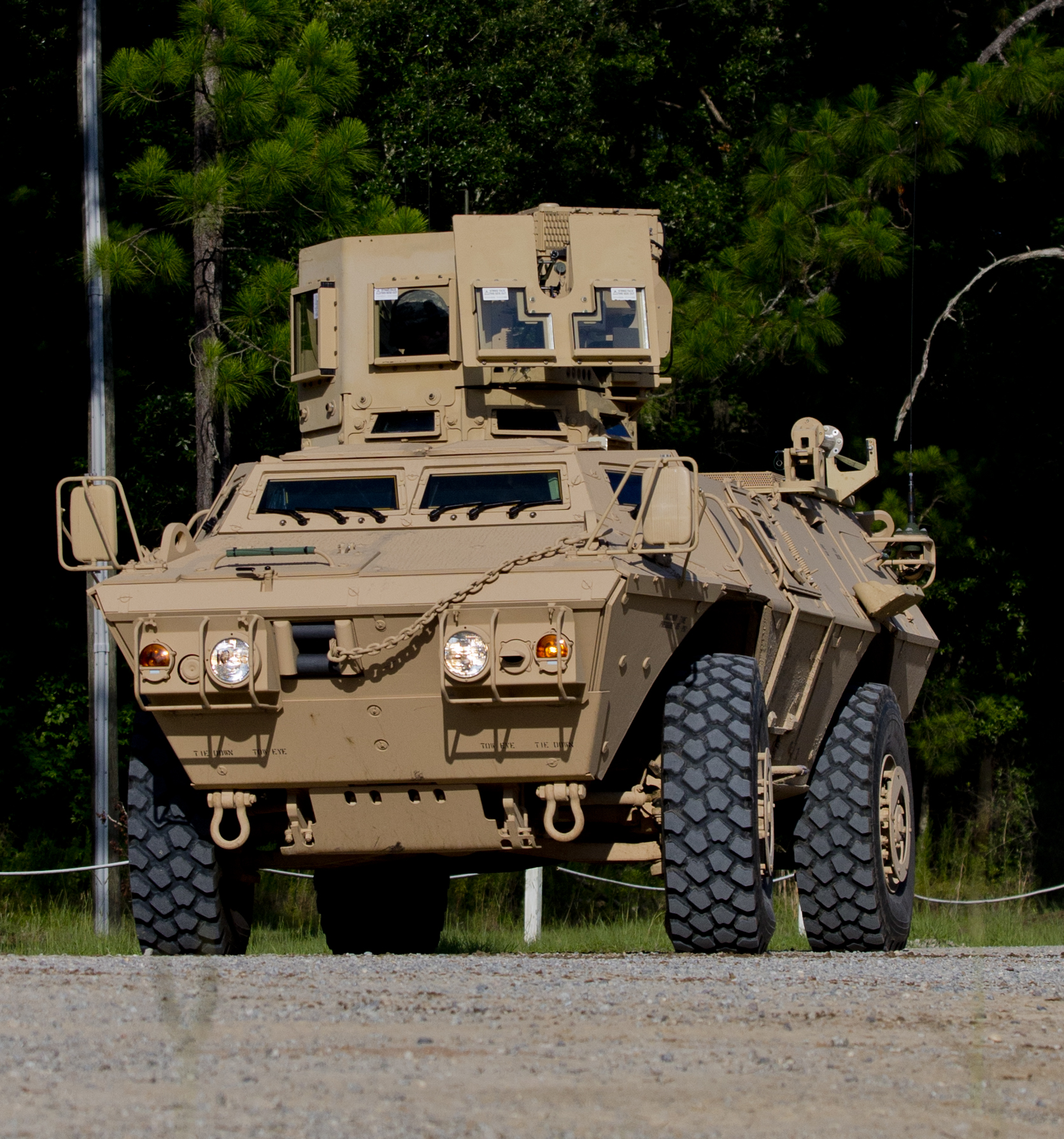 GEORGIA GARRISON TRAINING CENTER, Ft. Stewart, Ga., July 24, 2014 – A new member of the armored security vehicle (ASV) arsenal has joined the Georgia National Guard family. The U.S. Army M1200 Guardian ASV, or Armored Knight, is a laser wheeled vehicle with indirect artillery and munitions laser guidance capabilities. The rollout was conducted during the 3rd Squadron, 108th Cavalry Regiment, 560th Battlefield Surveillance Brigade’s annual training at Ft. Stewart, Ga. and was preceded by two weeks of intensive maintenance and operational classroom instruction. The Armored Knight’s enhanced calibrations will redefine fire support effectiveness as a force multiplier in combat operations lasing. (Georgia National Guard photo by Army Staff Sgt. Tracy J. Smith / released)